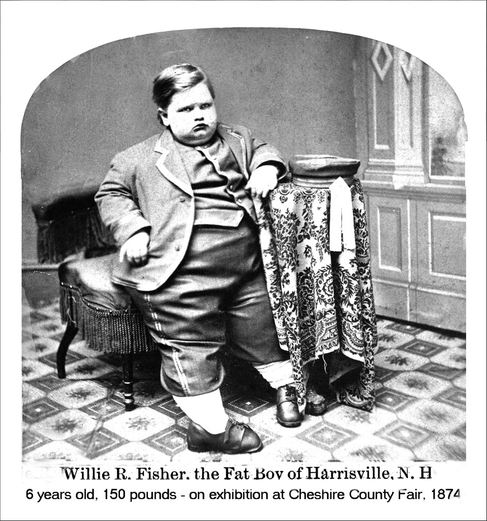 TITLE Fisher, Willie R. of Harrisville New Hampshire CREATOR French, J.A., Keene NH SUBJECT Boys - NH - Harrisville Obesity DESCRIPTION Stereograph of Willie R. Fisher ("The Fat Boy of Harrisville N.H.) At 6 years old, Willie weighed 150 pounds and was exhibited at the Cheshire County Fair in 1874. PUBLISHER Keene Public Library and the Historical Society of Cheshire County DATE DIGITAL 20090828 DATE ORIGINAL 1874 RESOURCE TYPE stereographs FORMAT image/jpg RESOURCE IDENTIFIER HS166-P1959 RIGHTS MANAGMENT No known copyright restrictions.